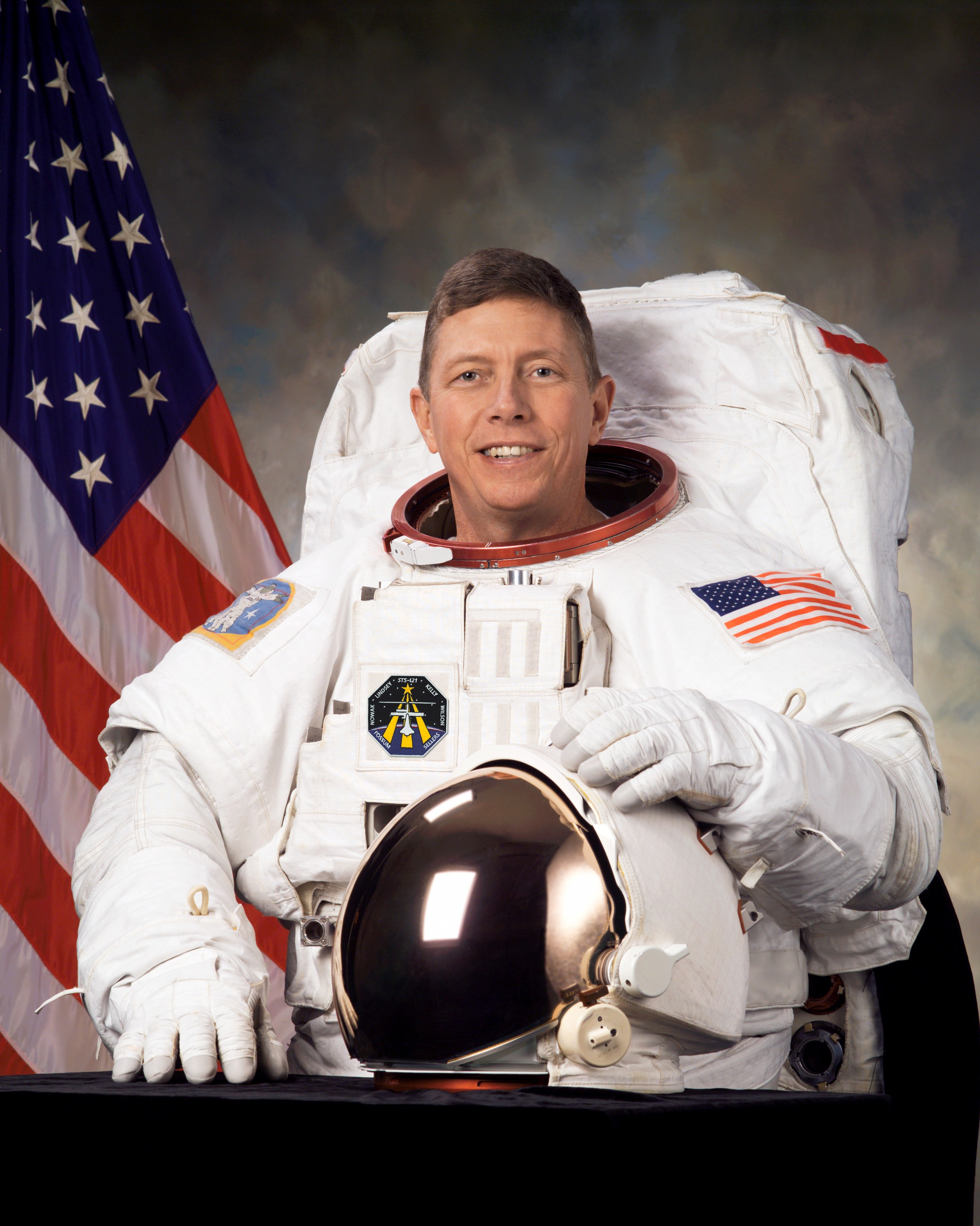 Astronaut Michael E. Fossum, mission specialist of STS-121 and STS-124